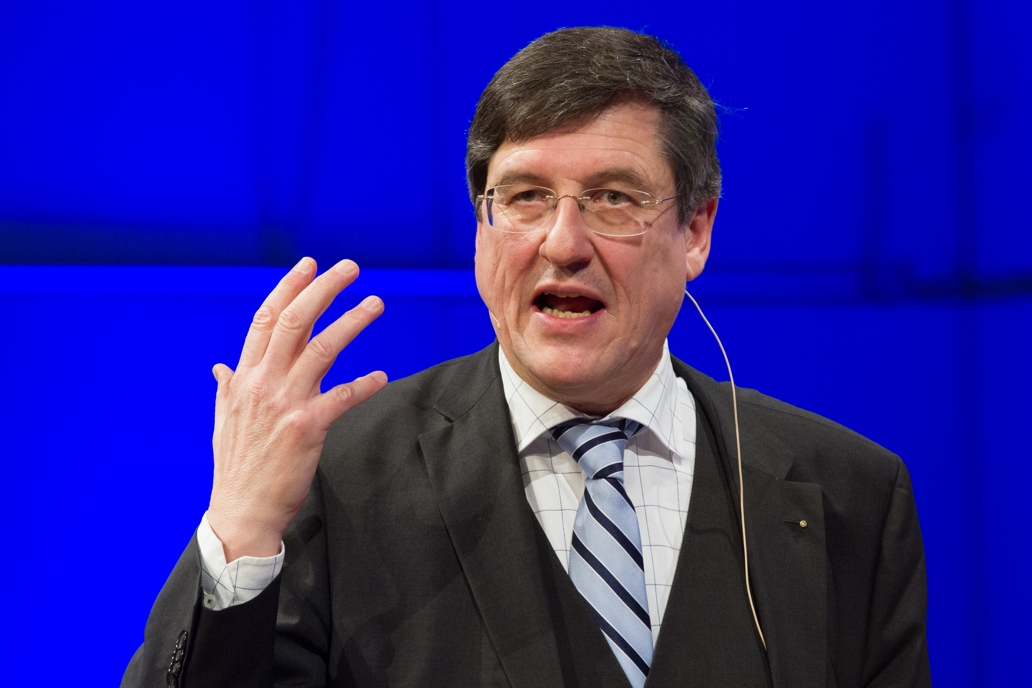 Series: 112th regular party convention of the FDP Baden-Württemberg in Stuttgart on January 5th, 2015 Image: Karl-Heinz Paqué